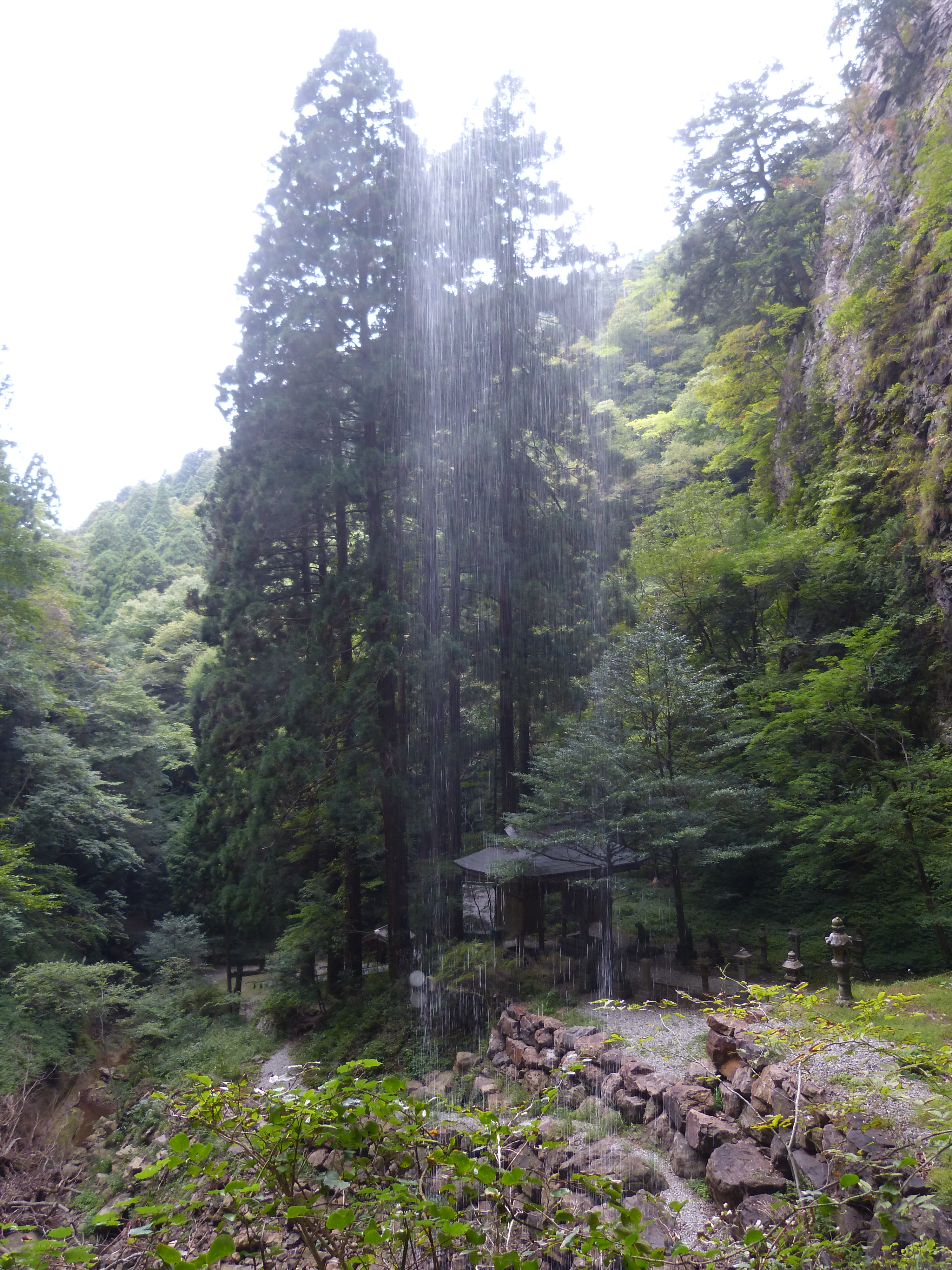 Dangyo Falls (a.k.a. Urami no Taki) in Okinoshima, Shimane Prefecture, Japan